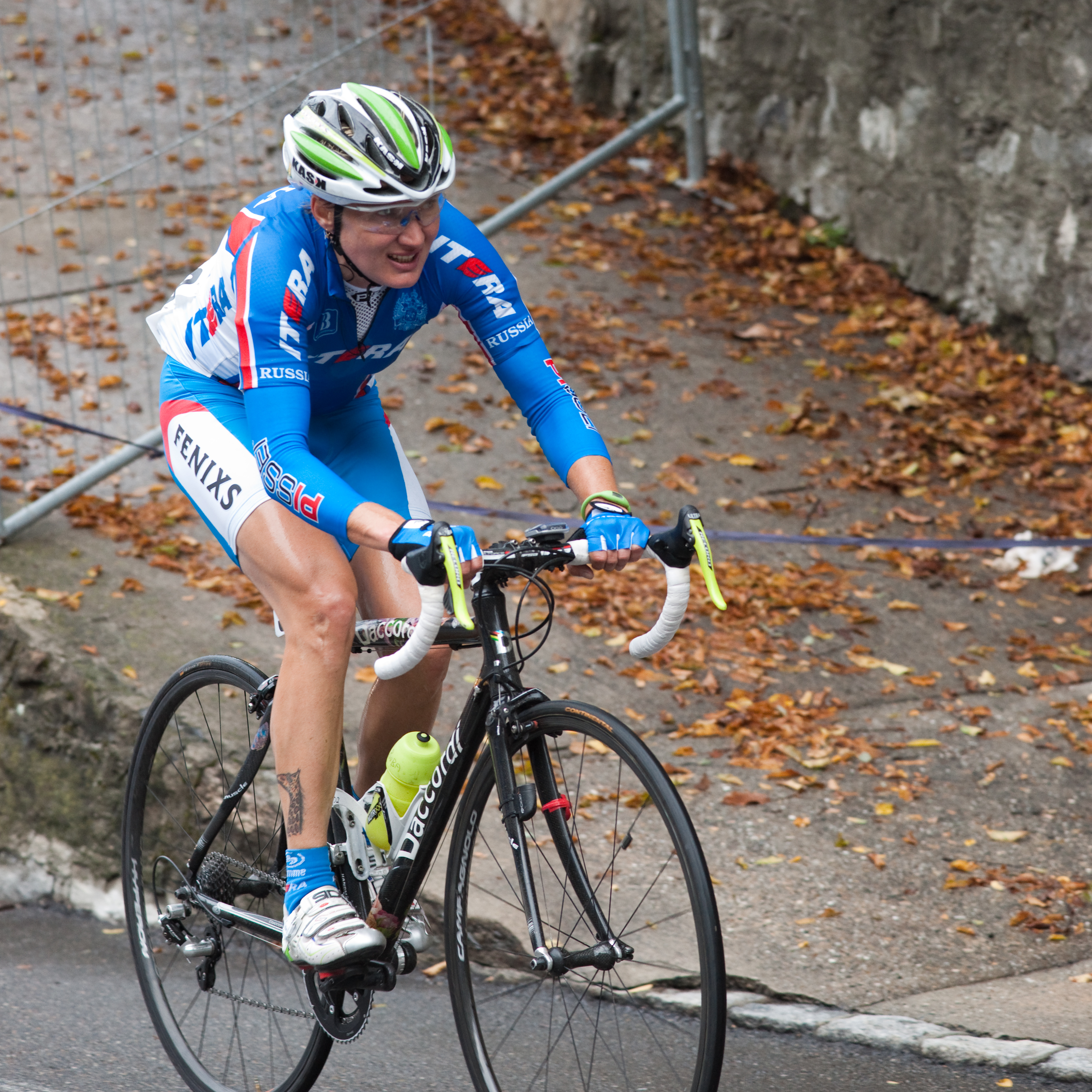 Svetlana Bubnenkova during the 2009 UCI Road Cycling Championships in Mendrisio, Switzerland.